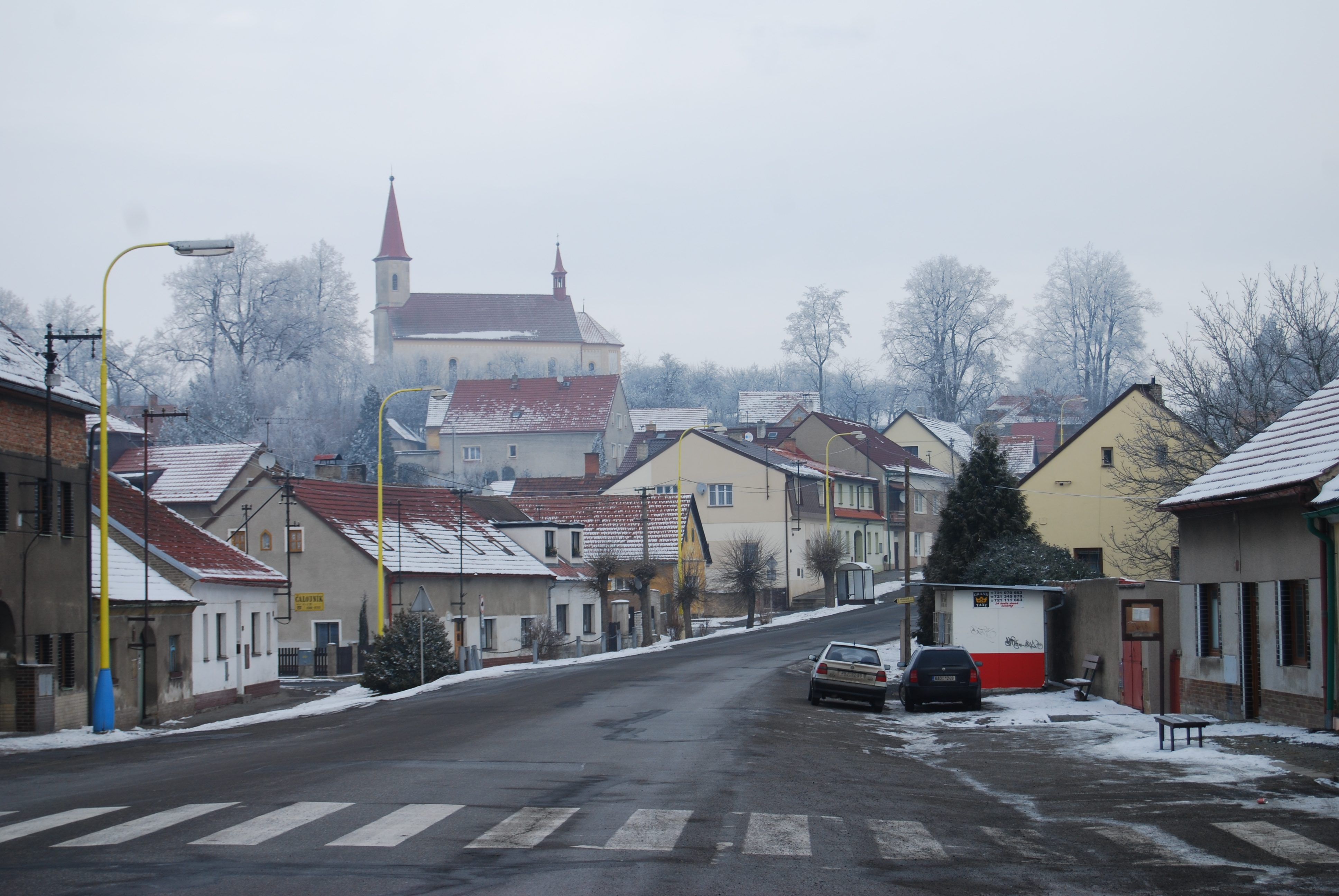 Street in Milín, Czech Republic.